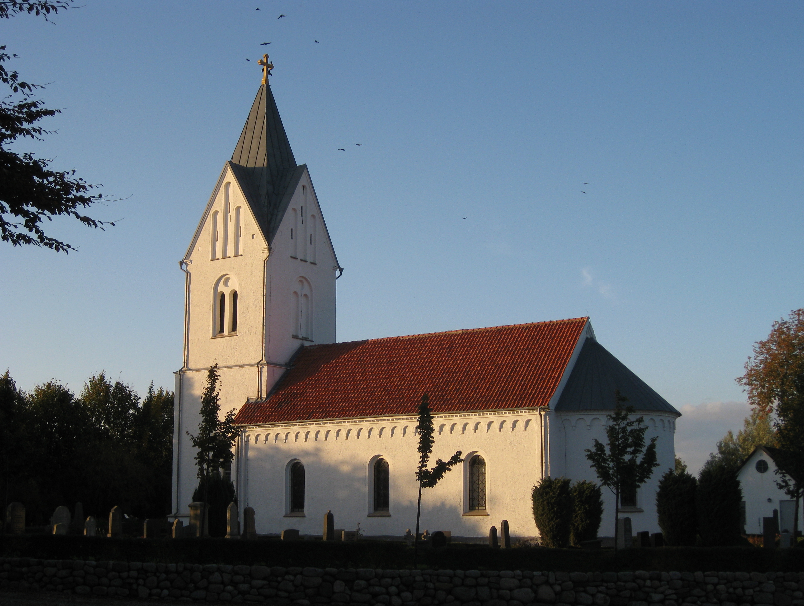 Äspö church, Skåne, Sweden